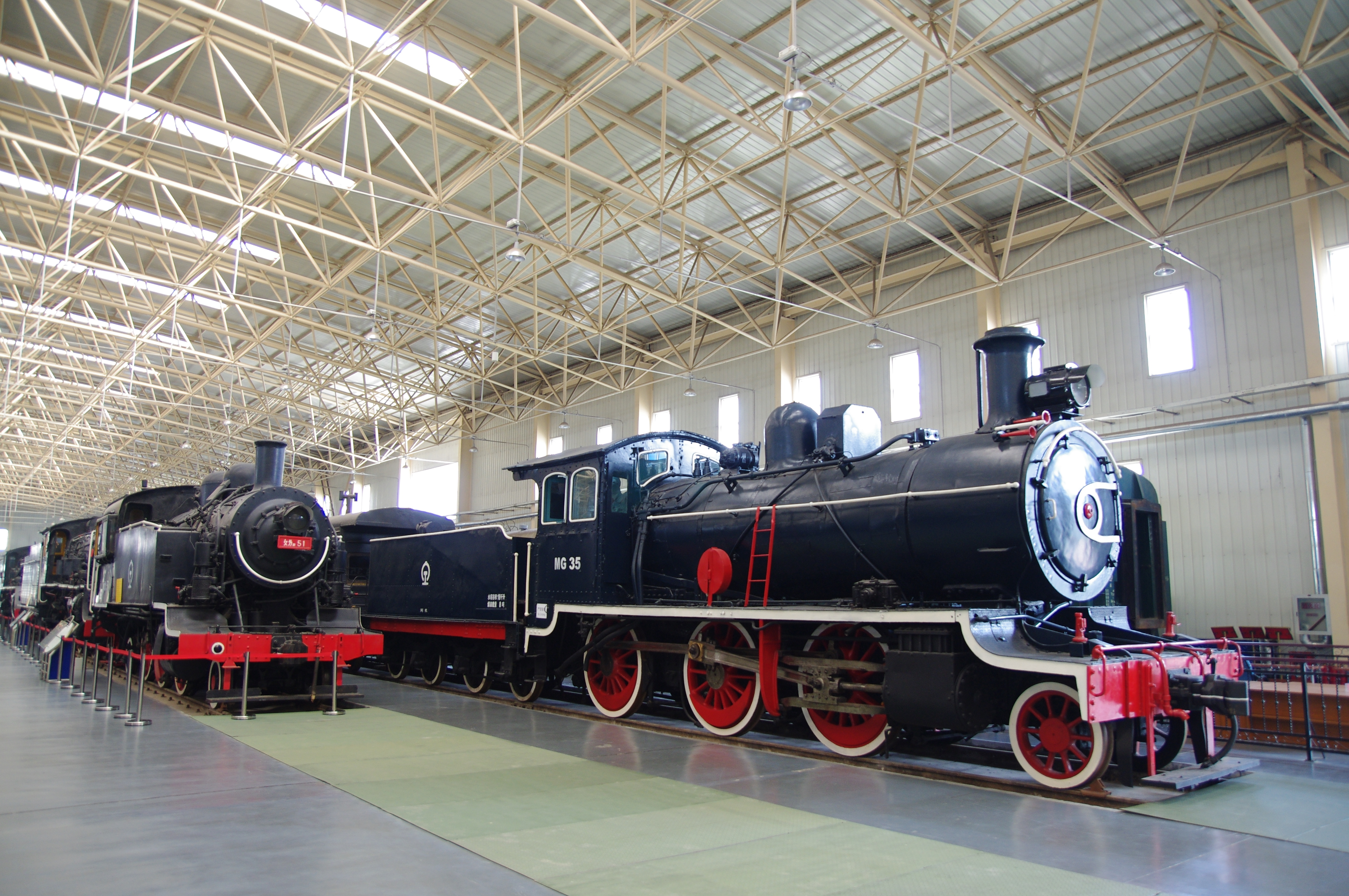 MG35 Steam locomotive at China Railway Museum MG-35蒸汽機車於中國鐵道博物館